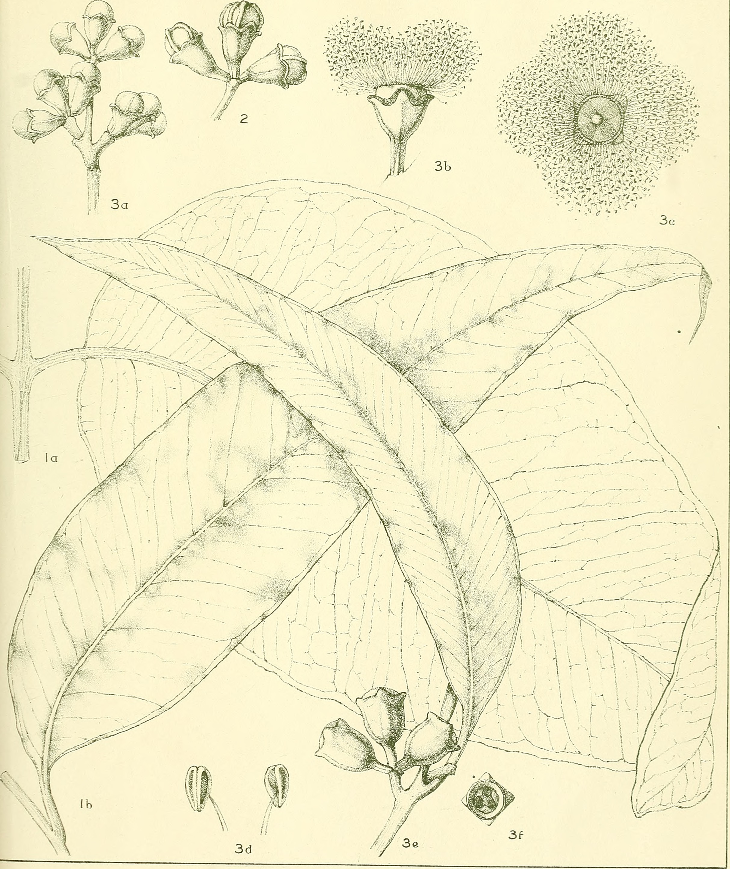 Title: A critical revision of the genus Eucalyptus Year: 1903 (1900s) Authors: Maiden, J. H. (Joseph Henry), 1859-1925 Subjects: Eucalyptus Publisher: Sydney, W. A. Gullick, government printer Text Appearing Before Image: Crit. Rev. Eucalyptus. PL. 185. â -V* t- '.â â *;Â« Text Appearing After Image: EUCALYPTUS TETRODONTA F.v.M. W.FIocKro-n.dol.et- lil-h